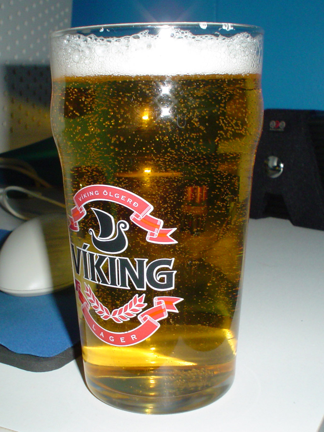 A beer of lager type in a Víking glass (an Icelandic brand).